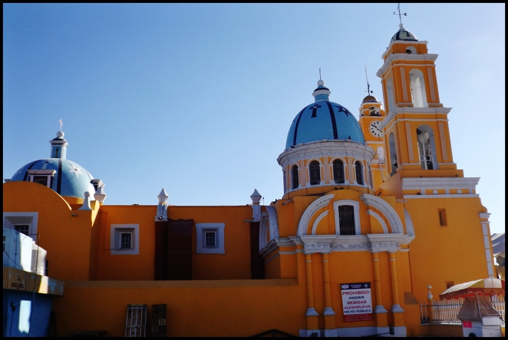 Parroquia del Divino Salvador (San Salvador Huixcolotla) Estado de Puebla,México